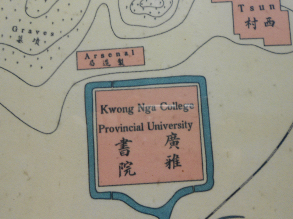 CANTON With Suburbs and Honam